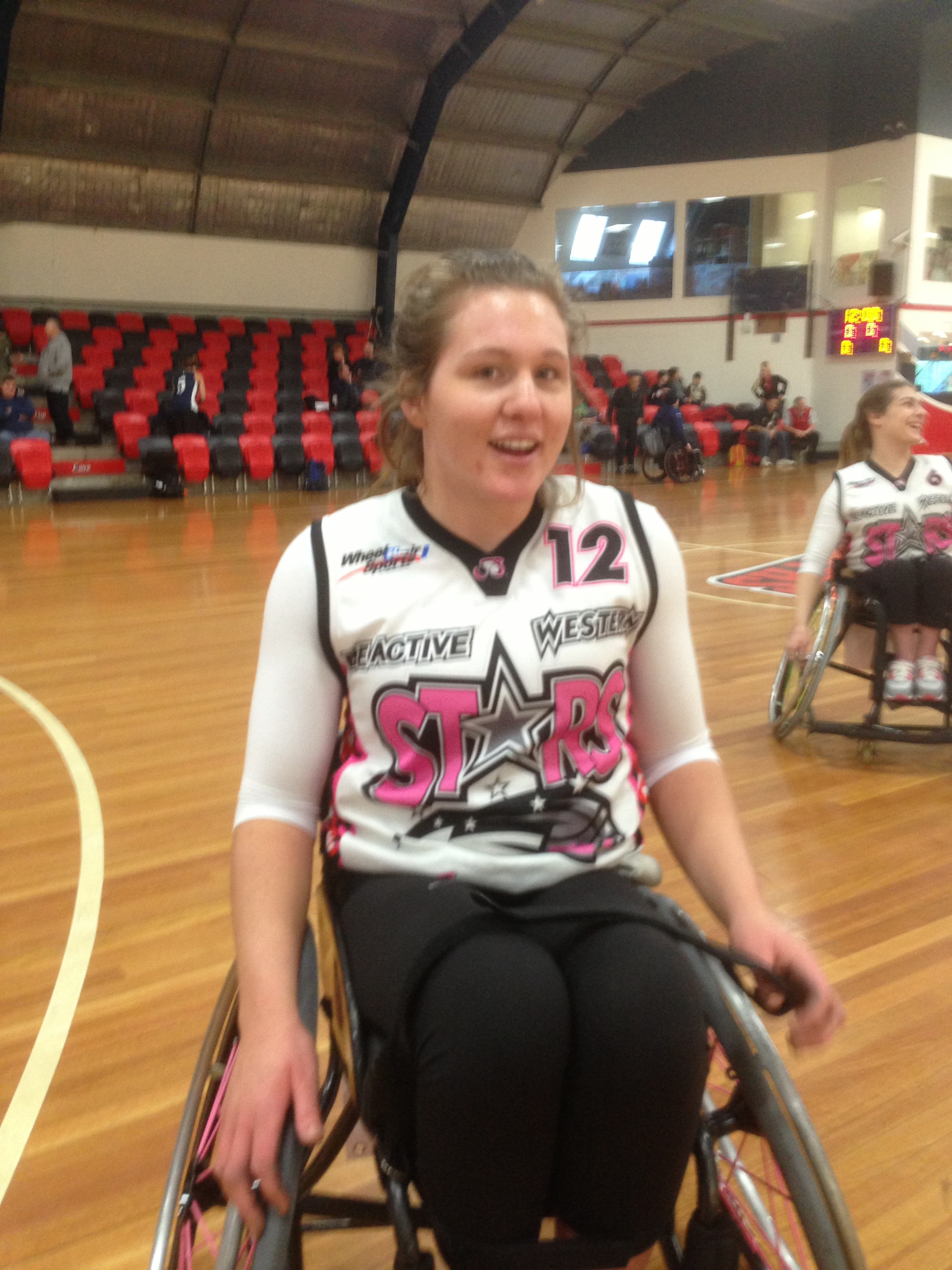 Georgia Inglis of the Western Stars women's wheelchair basketball team. Sydney, 14 July 2013